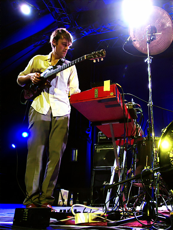 Ian William (with Battles), moers festival 2008